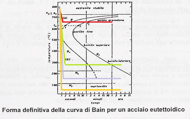 TTT diagram of an eutectoidic steel, with sample cooling curves